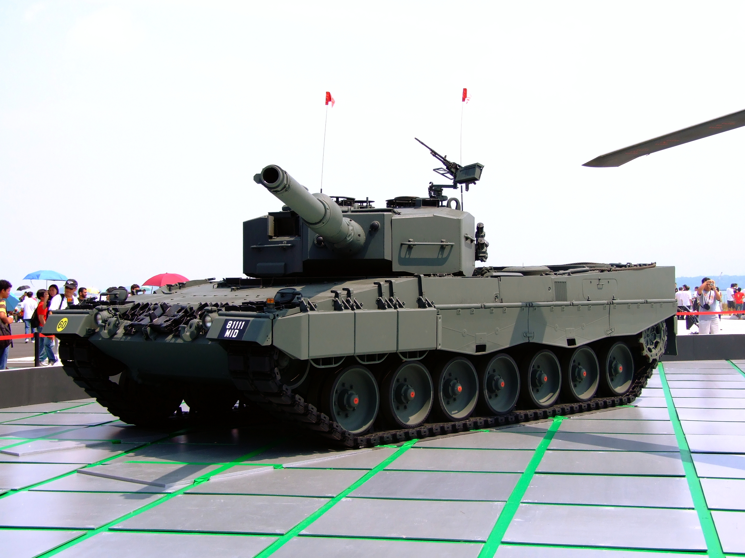 Texcoco took this picture of the SAF's Leopard 2A4 Main Battle Tank at the Singapore Airshow 2008 in Changi Exhibition Centre on 24 February 2008. Picture taken by his FUJIFLIM Finepix S6500fd